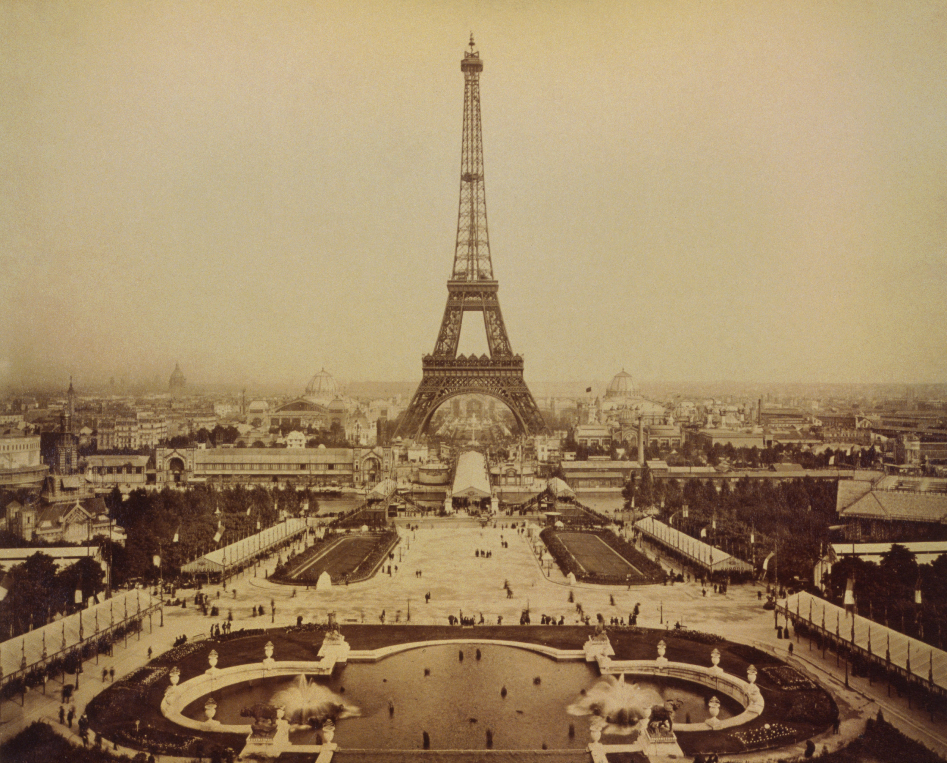 Eiffel Tower and Champ de Mars seen from Trocadéro Palace, Paris Exposition, 1889